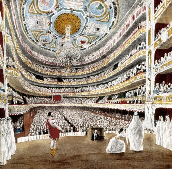 Engraving with a performance of Bellini's Norma at Gran Teatre del Liceu, Barcelona, possibly october 1847